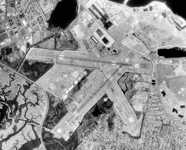 Aerial image of Sikorsky Memorial Airport in Bridgeport, Connecticut